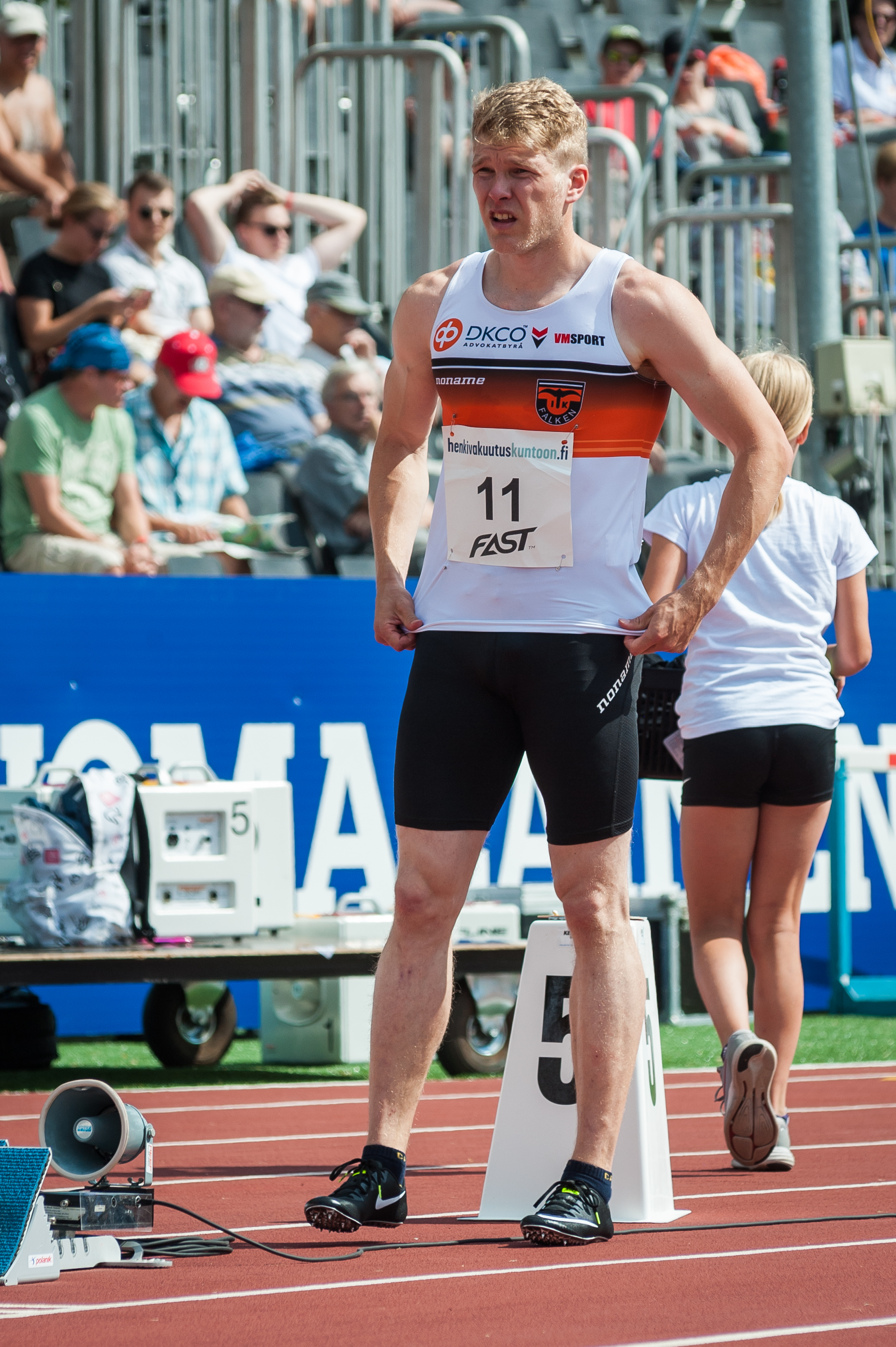 Men's 200 m competition at the 2018 Kalevan Kisat, the Finnish championships in athletics, in Jyväskylä, Finland.